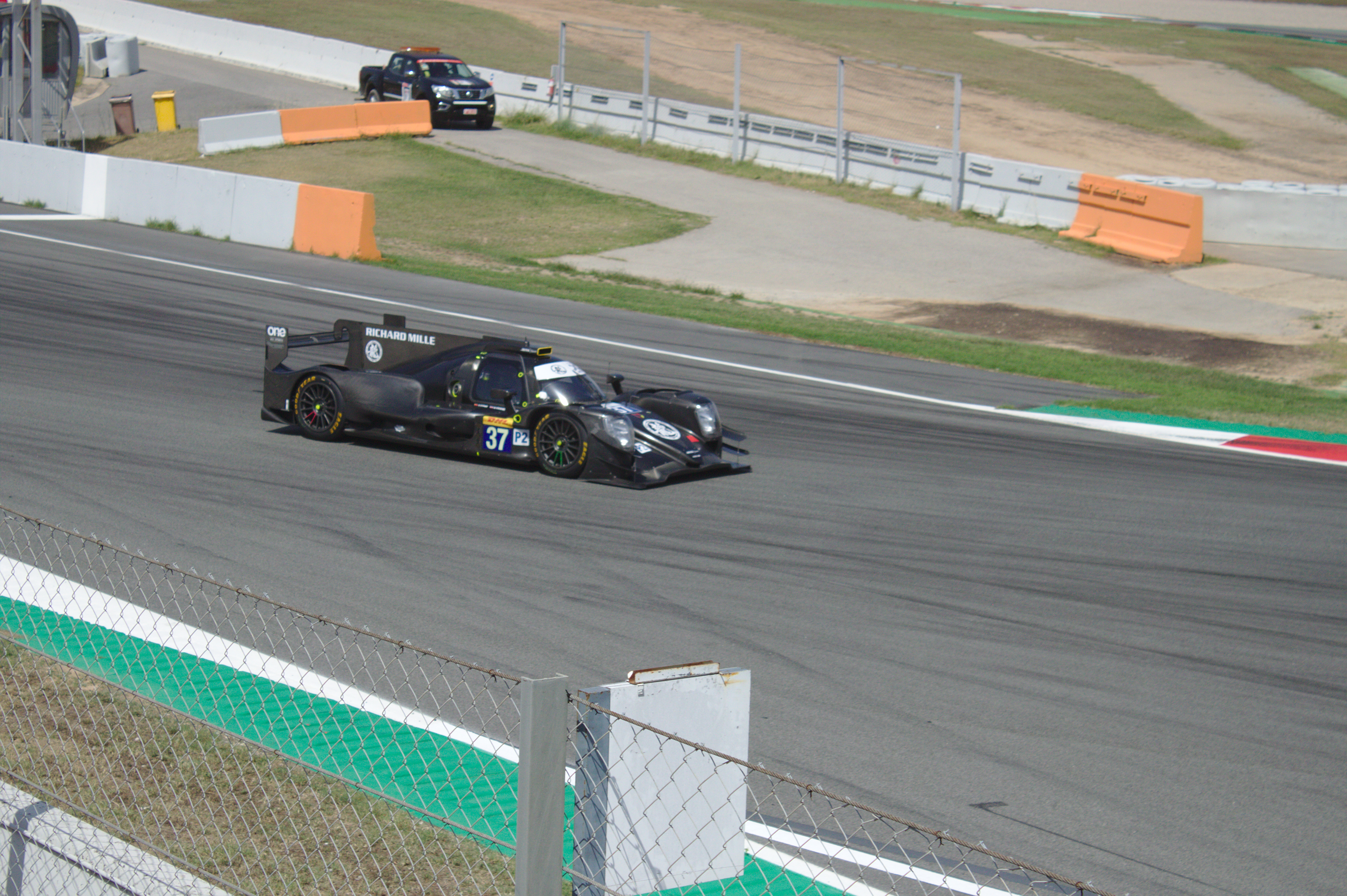 Slightly better photo of JOTA at the 2019 WEC prologue